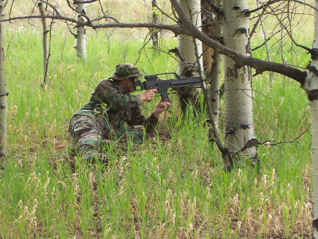 An Airsoft Player in Colorado winds his "mag".